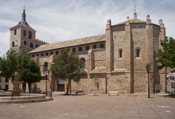 Ref: PM_100314_E_Moral_de_Calatrava.jpg; Moral de Calatrava; Iglesia de San Andrès Apóstol; Castilla-la Mancha, Ciudad Real; Spain; Cultural heritage; Europe/Spain/Moral de Calatrava; photo: Paul M.R.Maeyaert; © Paul M.R. Maeyaert